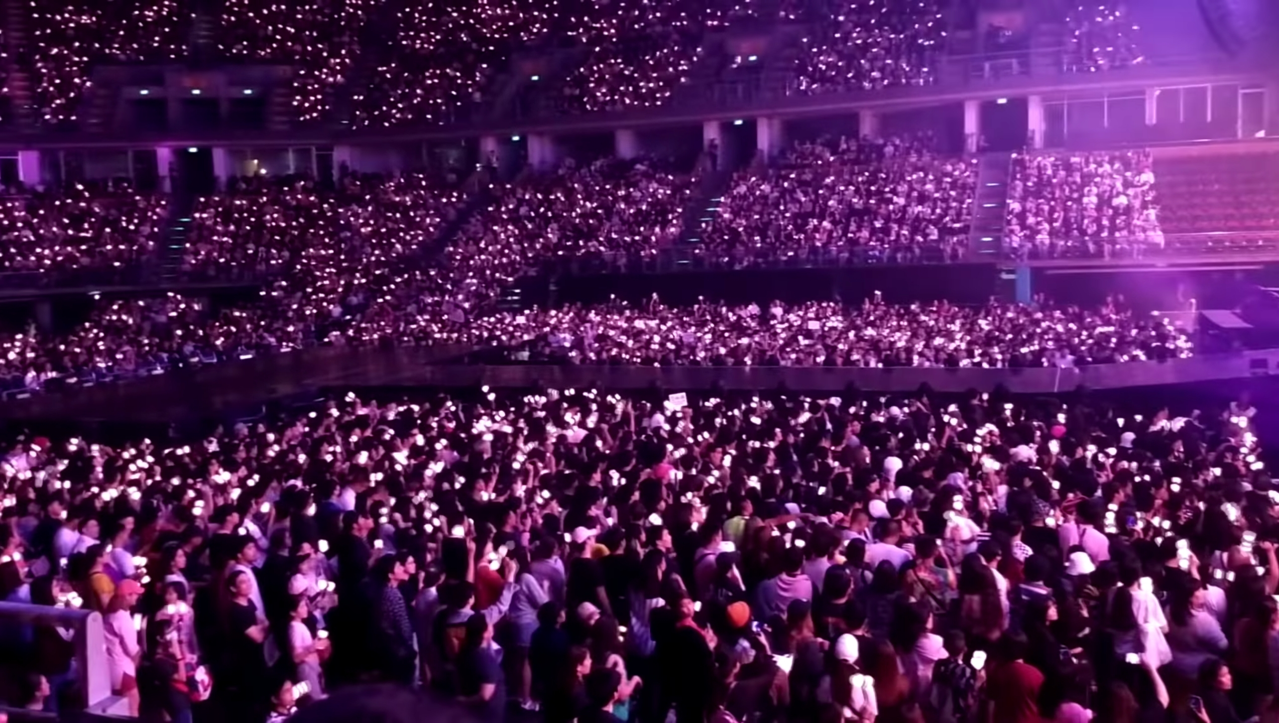 BLINK 'Pink Ocean' during Blackpink in Your Area tour in Thailand.